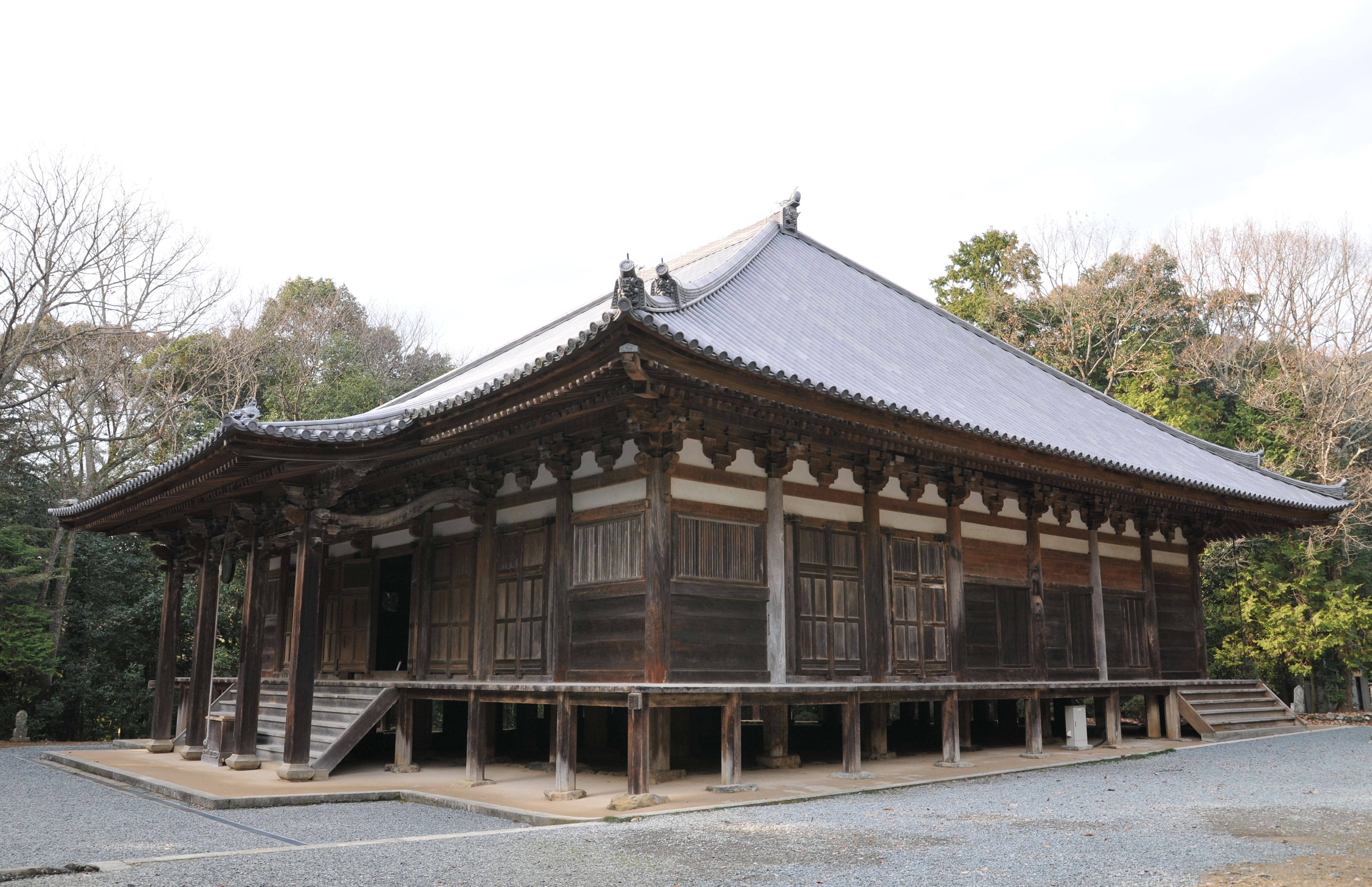 Main hall(Japan's Natiional Treasure), Chōkō-ji